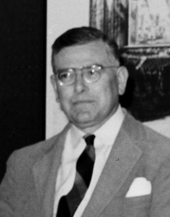 Paul Thiry, 1958